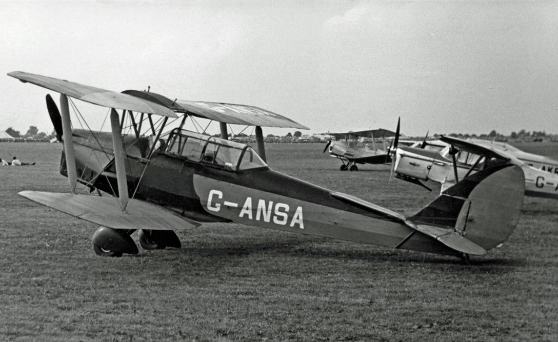 De Havilland 82A Tiger Moth Coupe at Coventry (Baginton) Airport